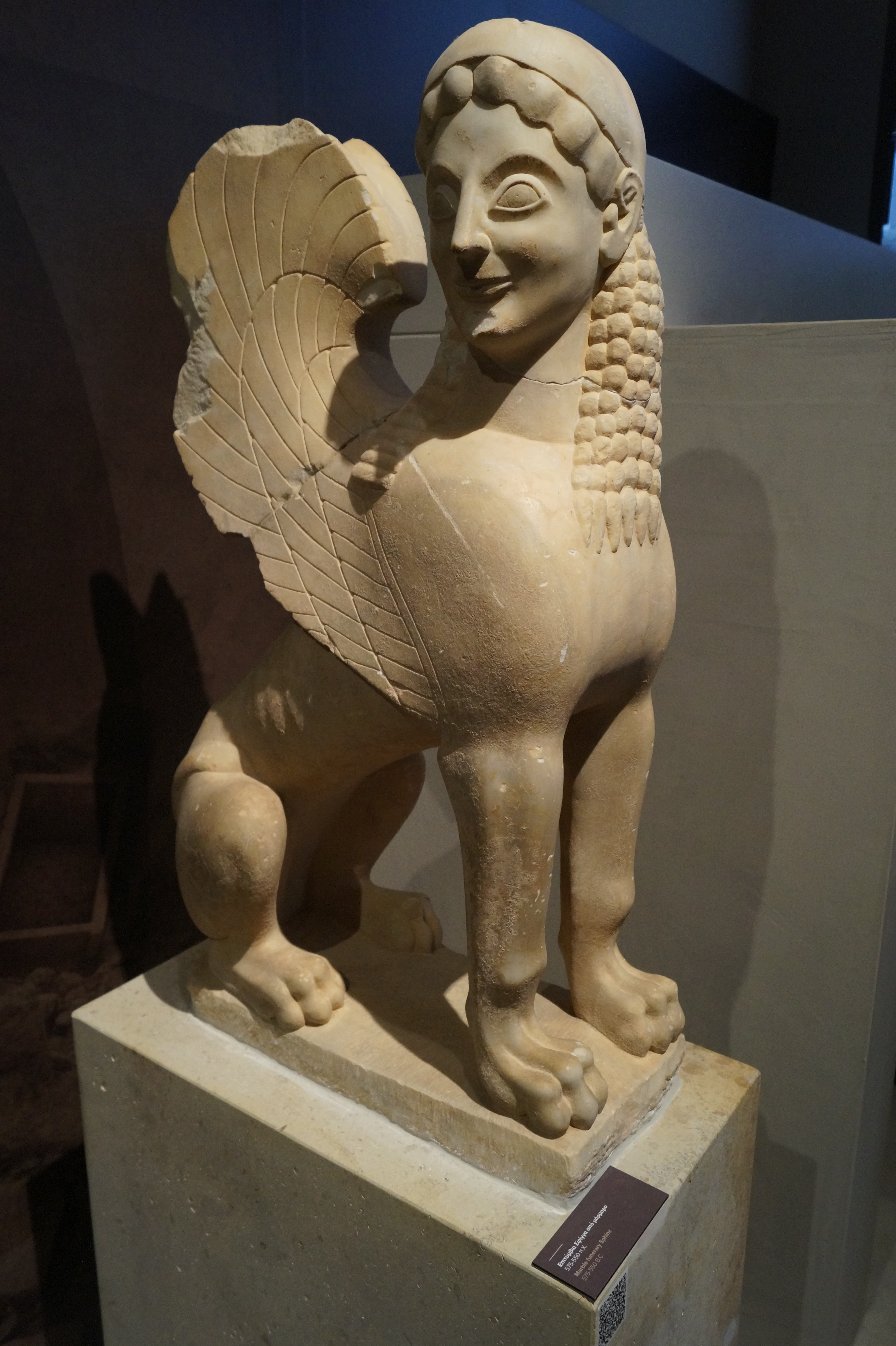 Archaeological Museum of Corinth, Greece: Sphinx of Aetopetra (about 575 BC), probably from a sepulchral stele.